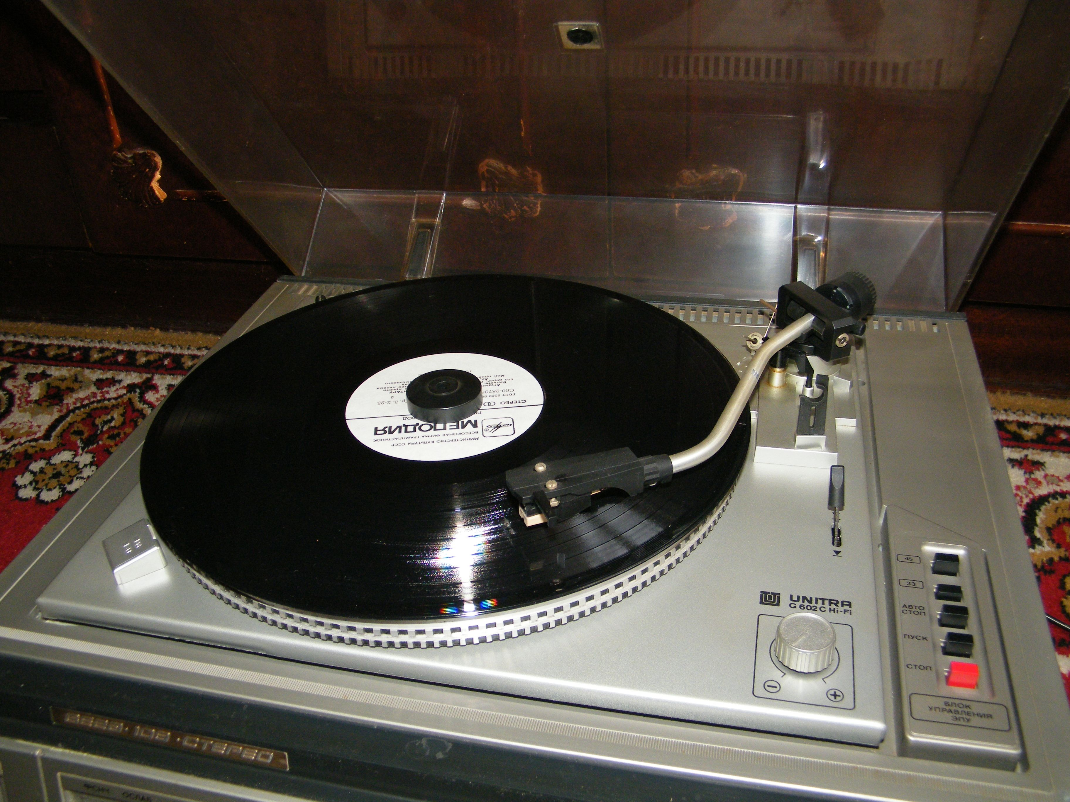 Vega 109 stereo grammophone, USSR, 1980s